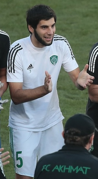 Arsen Adamov with FC Akhmat Grozny after the game against FC Khimki.